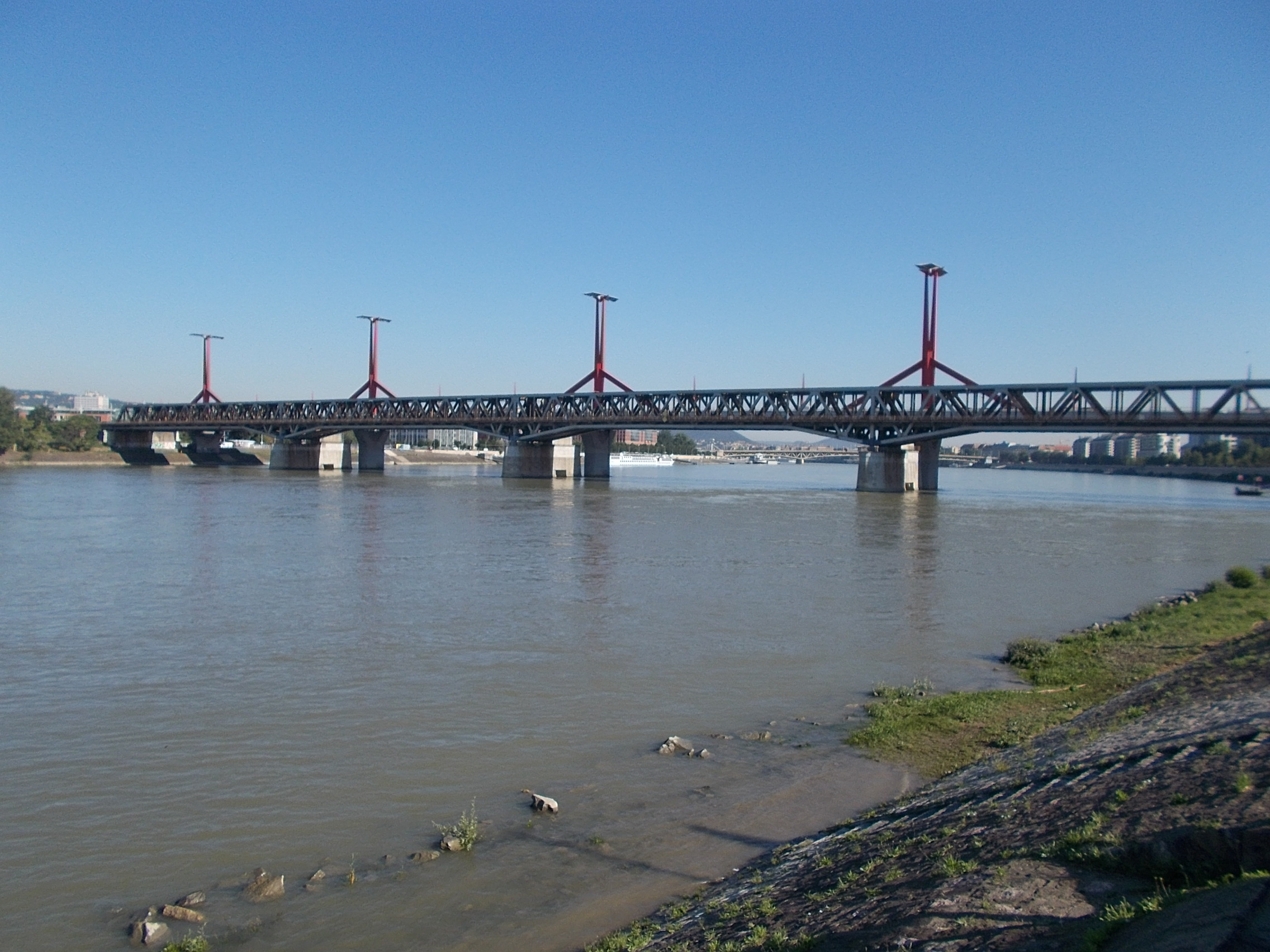 Southern Railway bridge amd pylons of Rákóczi Bridge from 'Valyo kikötő'. - Hajóállomás street, 9th district of Budapest.